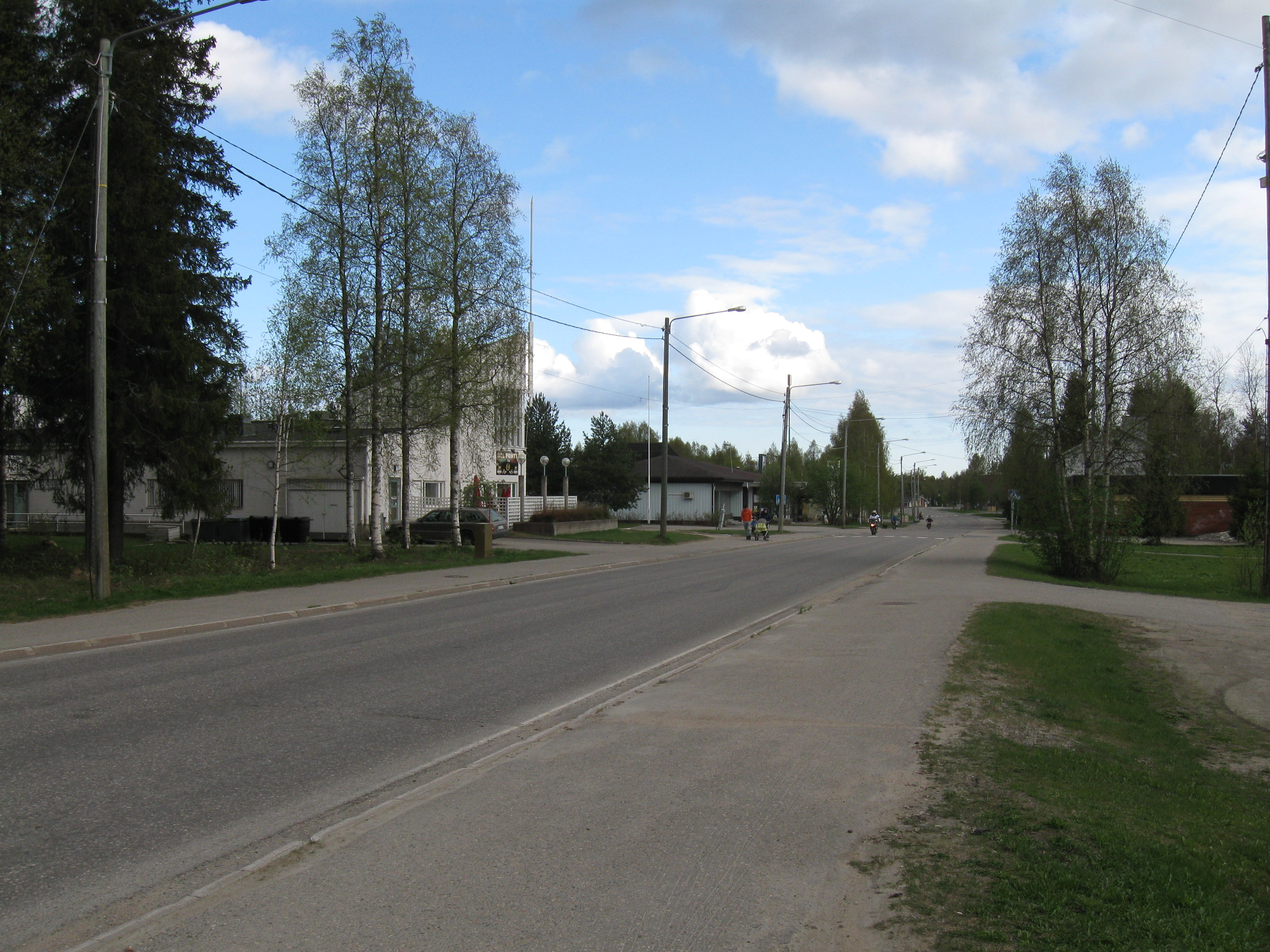 Municipality of Tervola in Lapland, Finland.